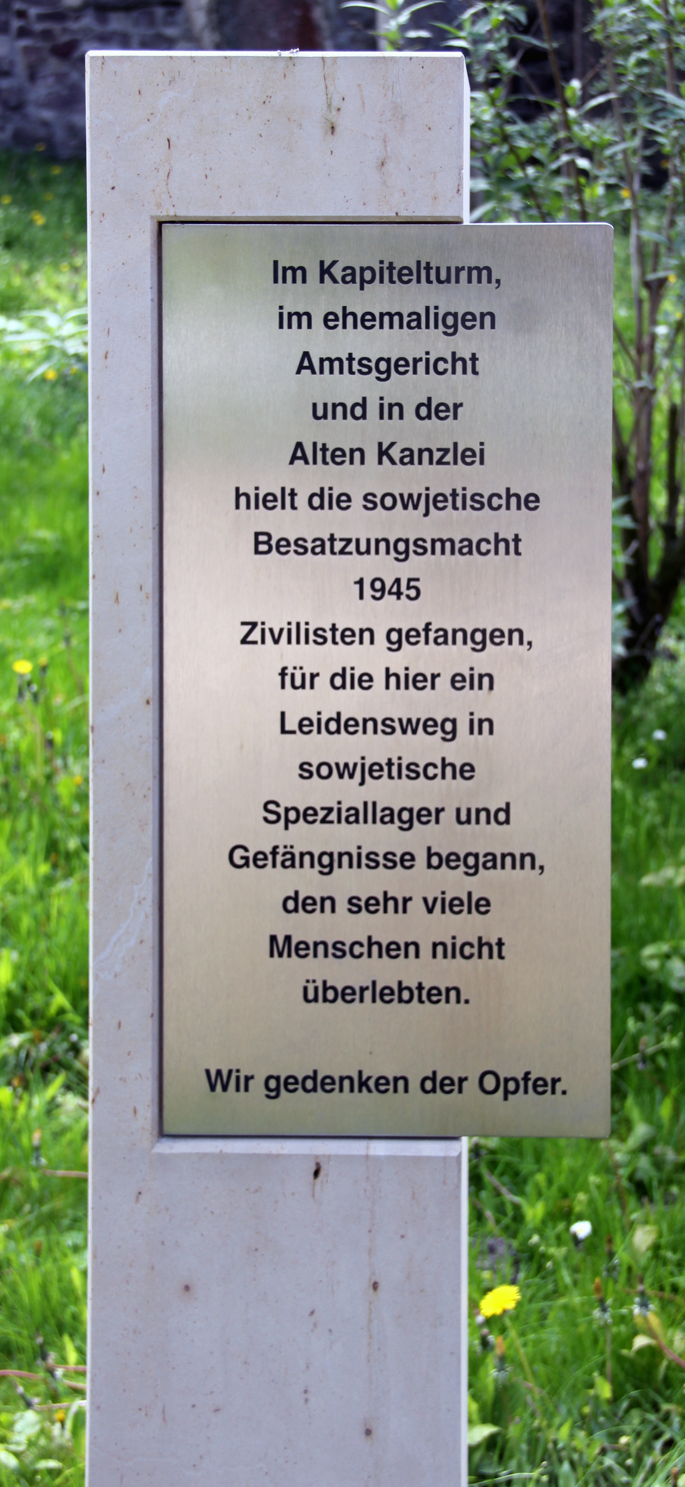 Memorial plaque, sowjetische Gefangene, Amt, Tangermünde, Deutschland